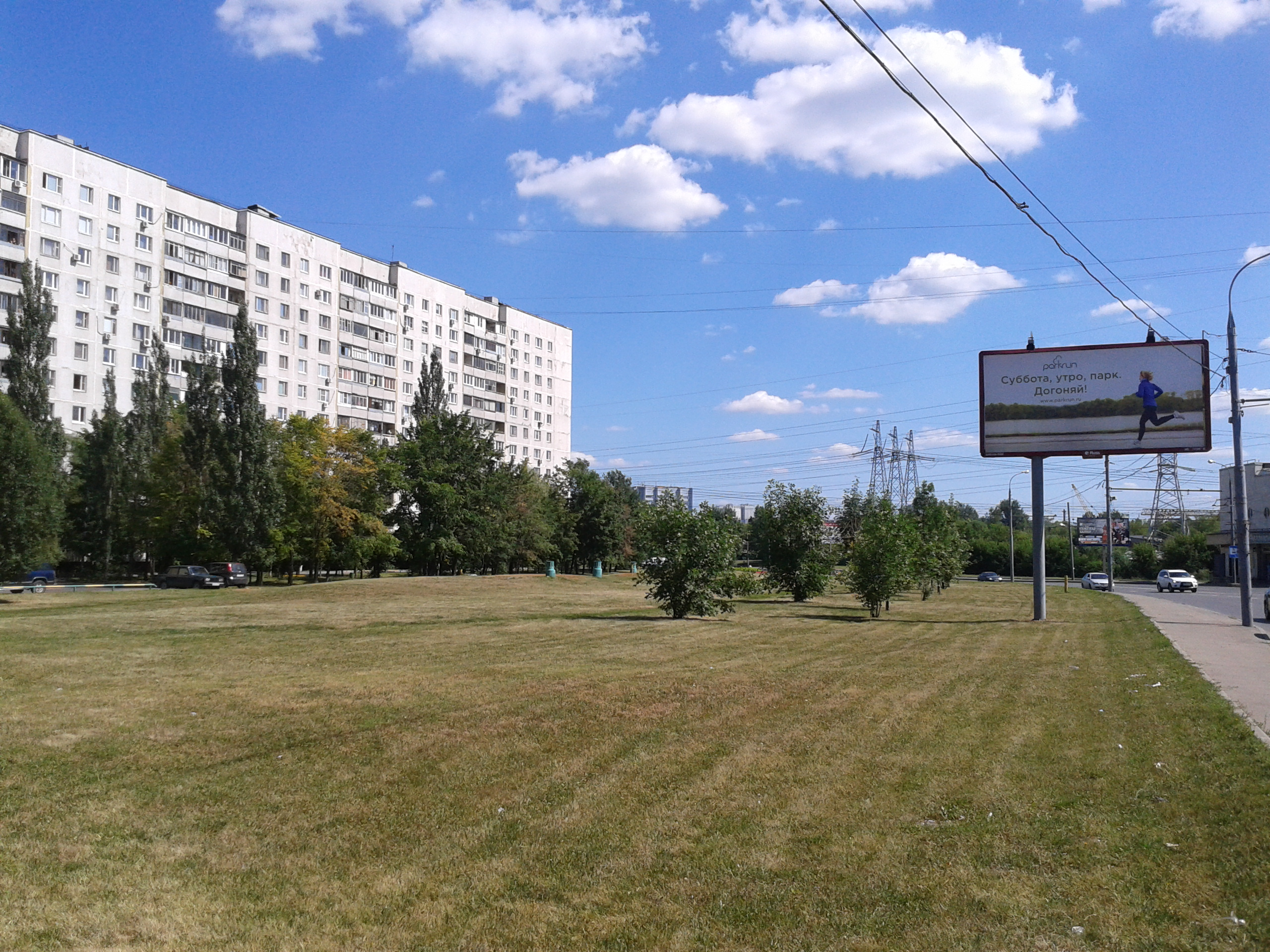 Leskowa street, Moscow, Russia, 2014. View to Shirokaya street (East)